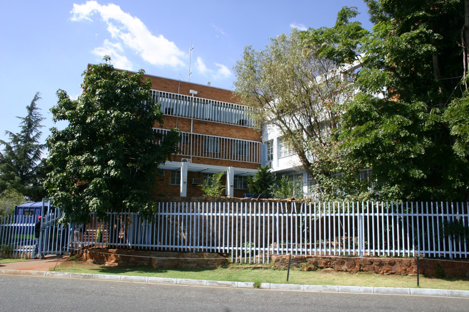 former Bernard Price Institute of Palaeontology, Johannesburg